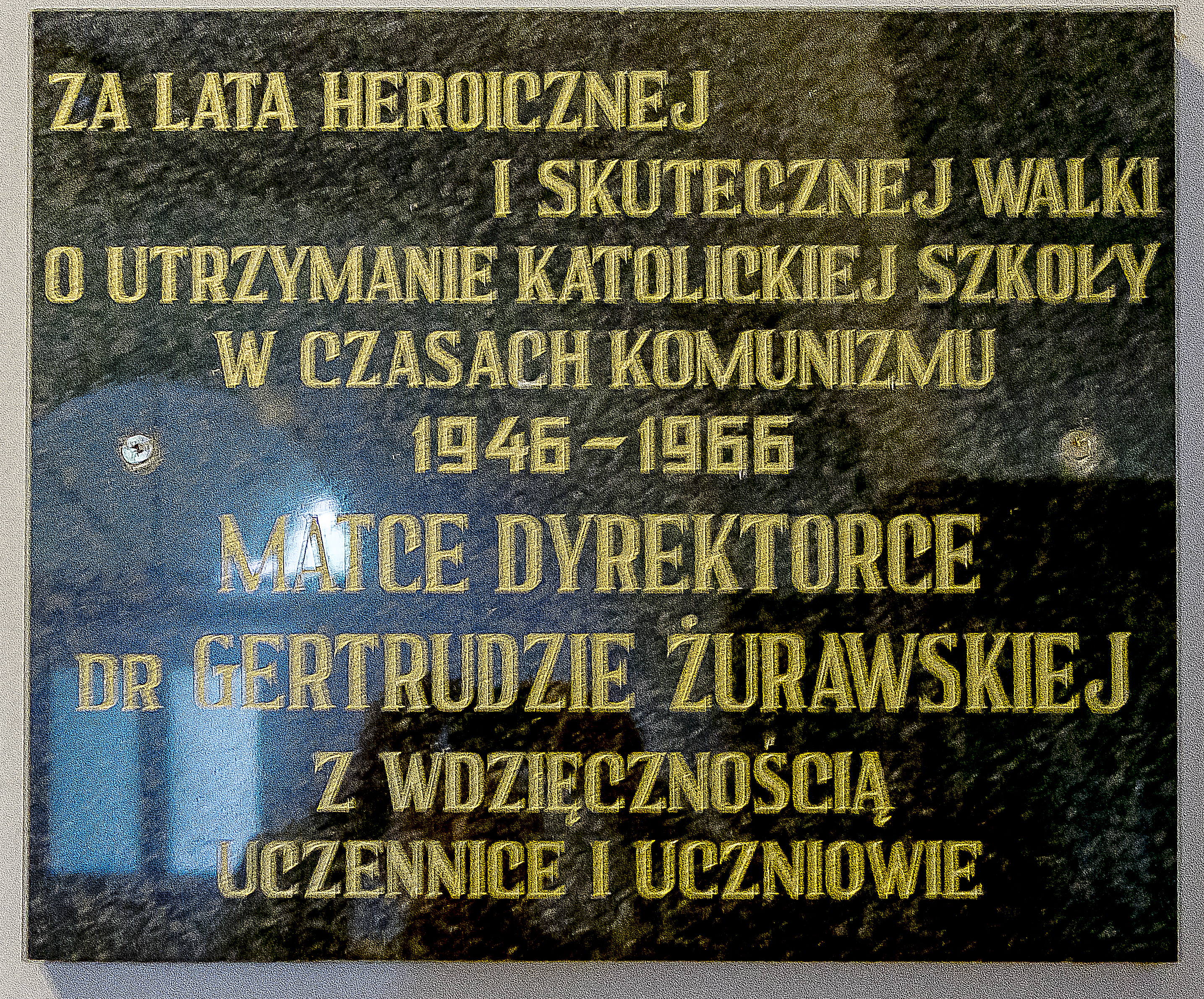 Convent of Society of the Sacred Heart in Pobiedziska (Poland) - Board in memory of Mother Gertruda Żurawska